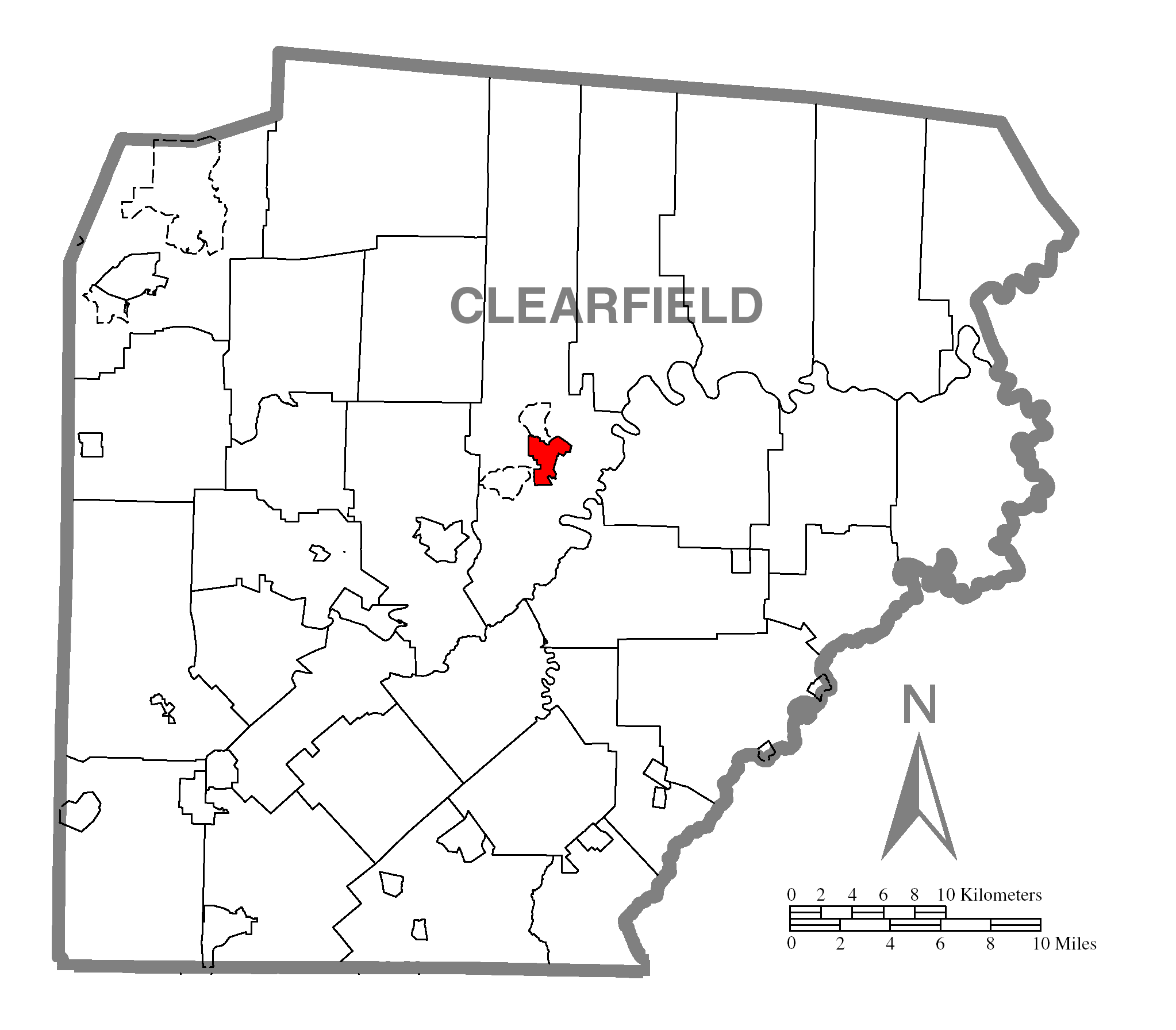 A map of Clearfield County showing Clearfield, Pennsylvania (alternate) highlighted on the map.